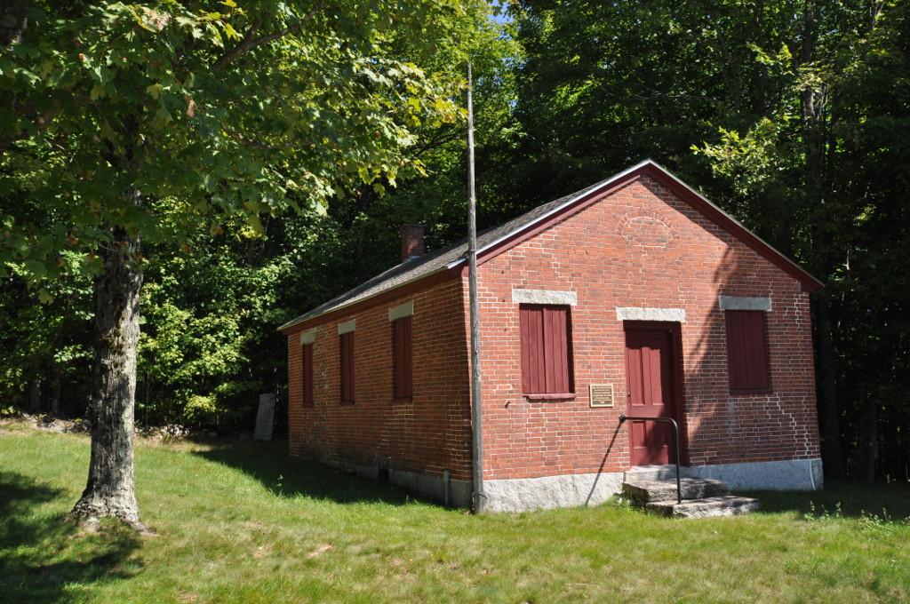 Bell Hill School, Otisfield, Maine. Now a local historical museum.